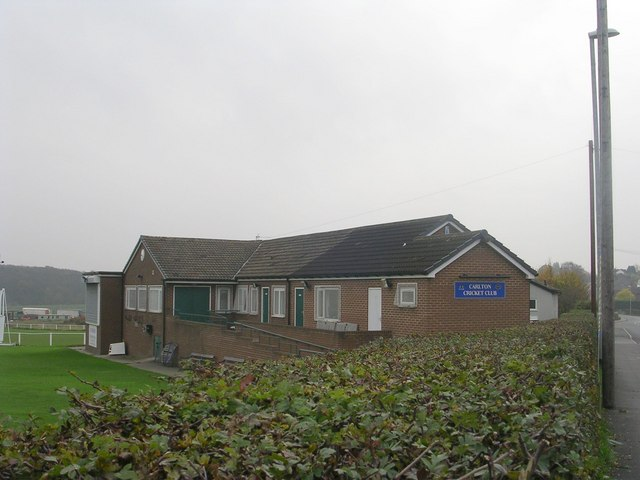 Carlton Cricket Club Pavilion - Town Street